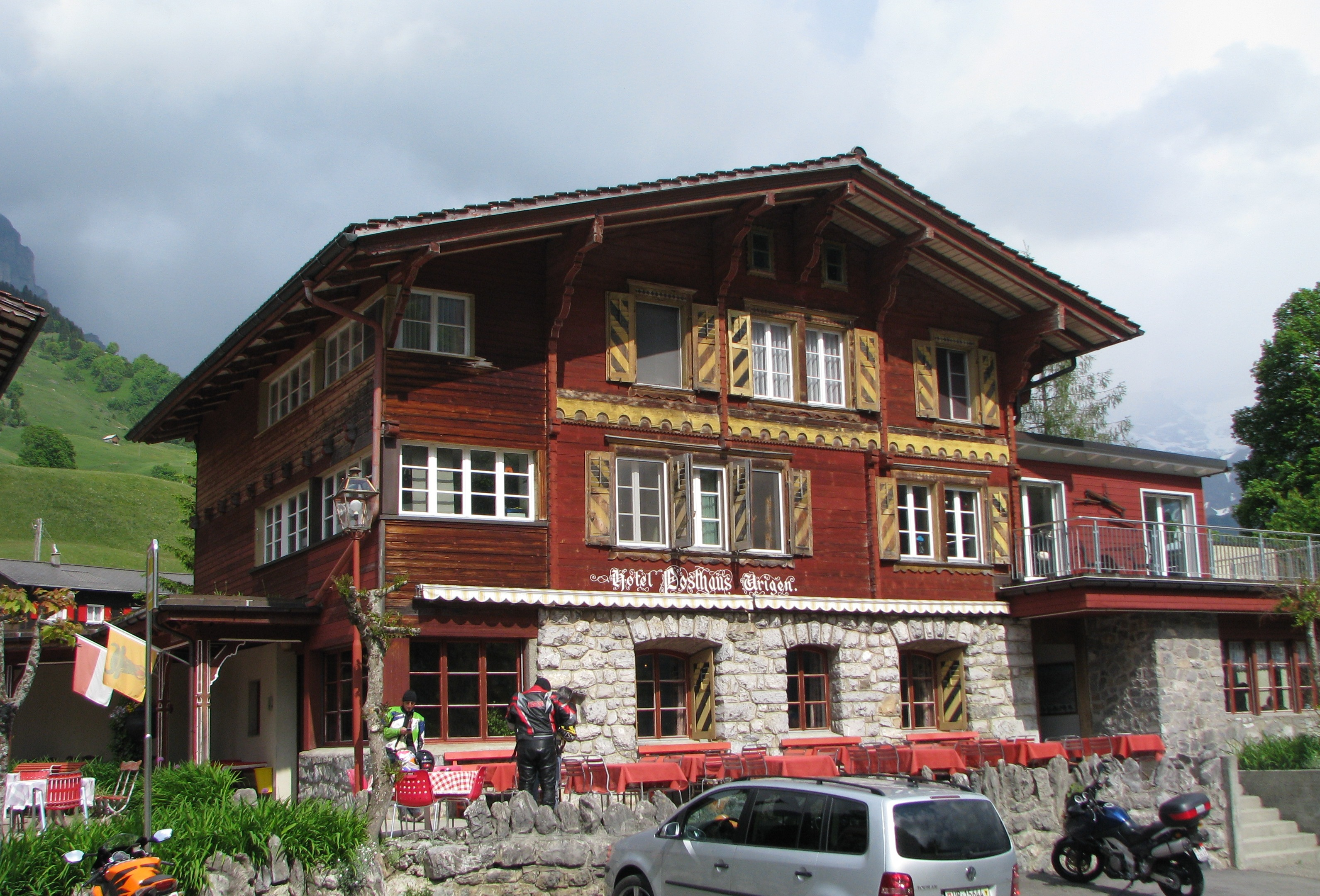 Posthouse Urigen in Unterschächen (Switzerland)